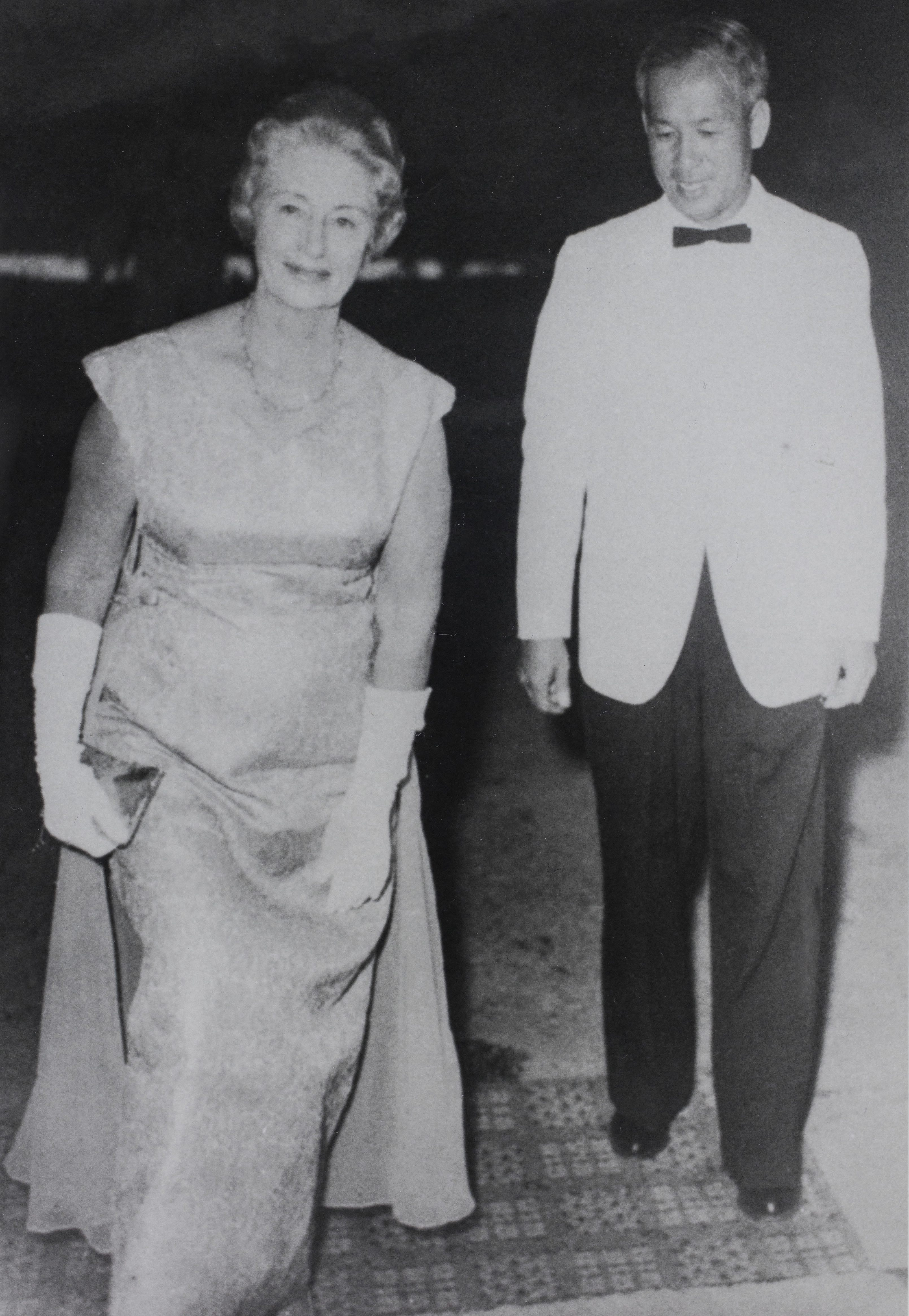 Lillian Dean and Harry Chan attending a function at Government House, The Esplanade, Darwin, Northern Territory. (PH0553/0103)